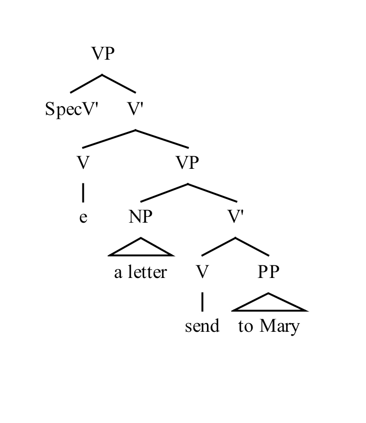 The underlying structure of a simple dative according to Larson (1988)